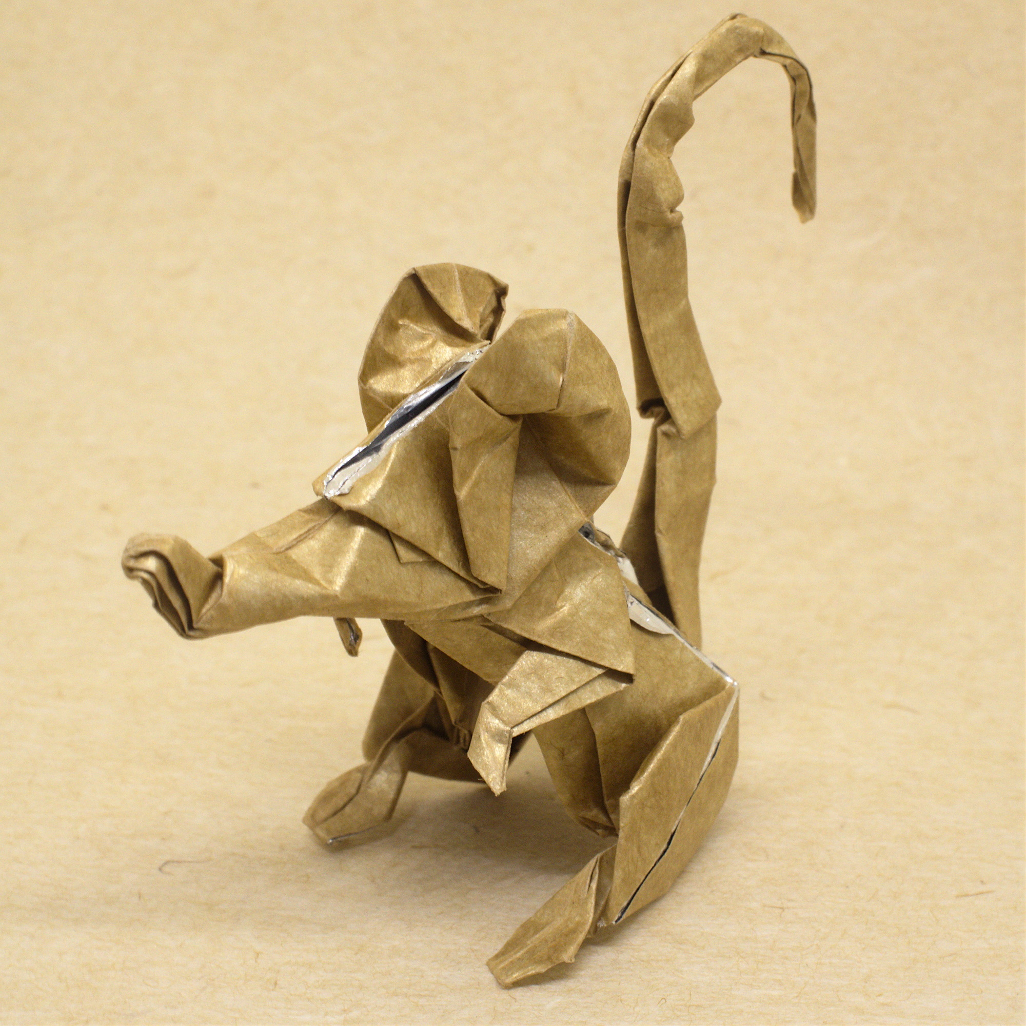 Folding of an Joisel's rat in foil paper